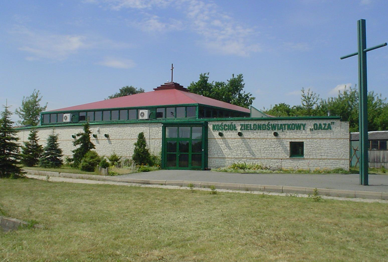 Oasis Pentecostal Church, Lublin, Poland